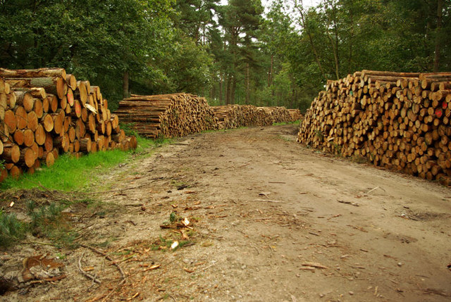 Logging in Wykeham Forest Logs each side of a forestry commission track in Wykeham Forest, North Yorkshire